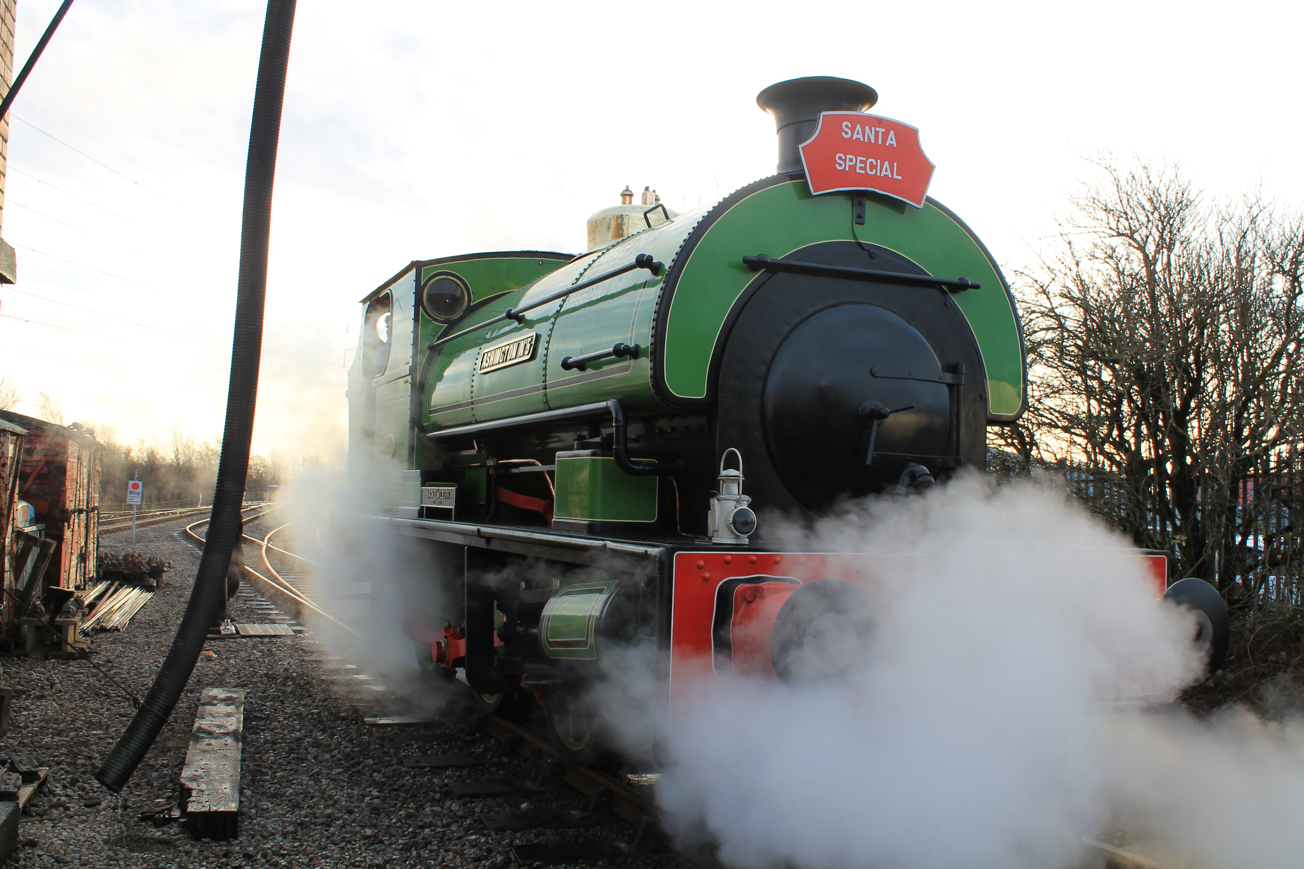 Ashington No.5 'Jackie Milburn' leaving the water tower to back up onto its coaches during the NTSR's Santa Specials 2012.